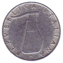 REPUBBLICA ITALIANA; Rudder. Below (small) ROMAGNOLI, name of engraver.